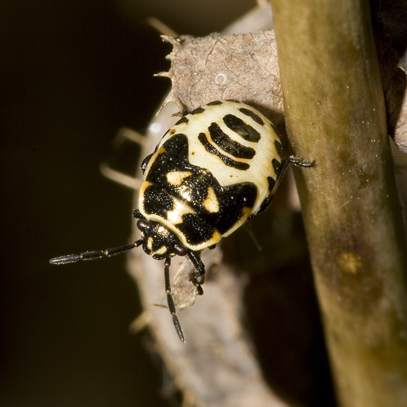 Eurydema ornatum (probably), Many thanks to Andreas Müller from for determination (but its not shure!).